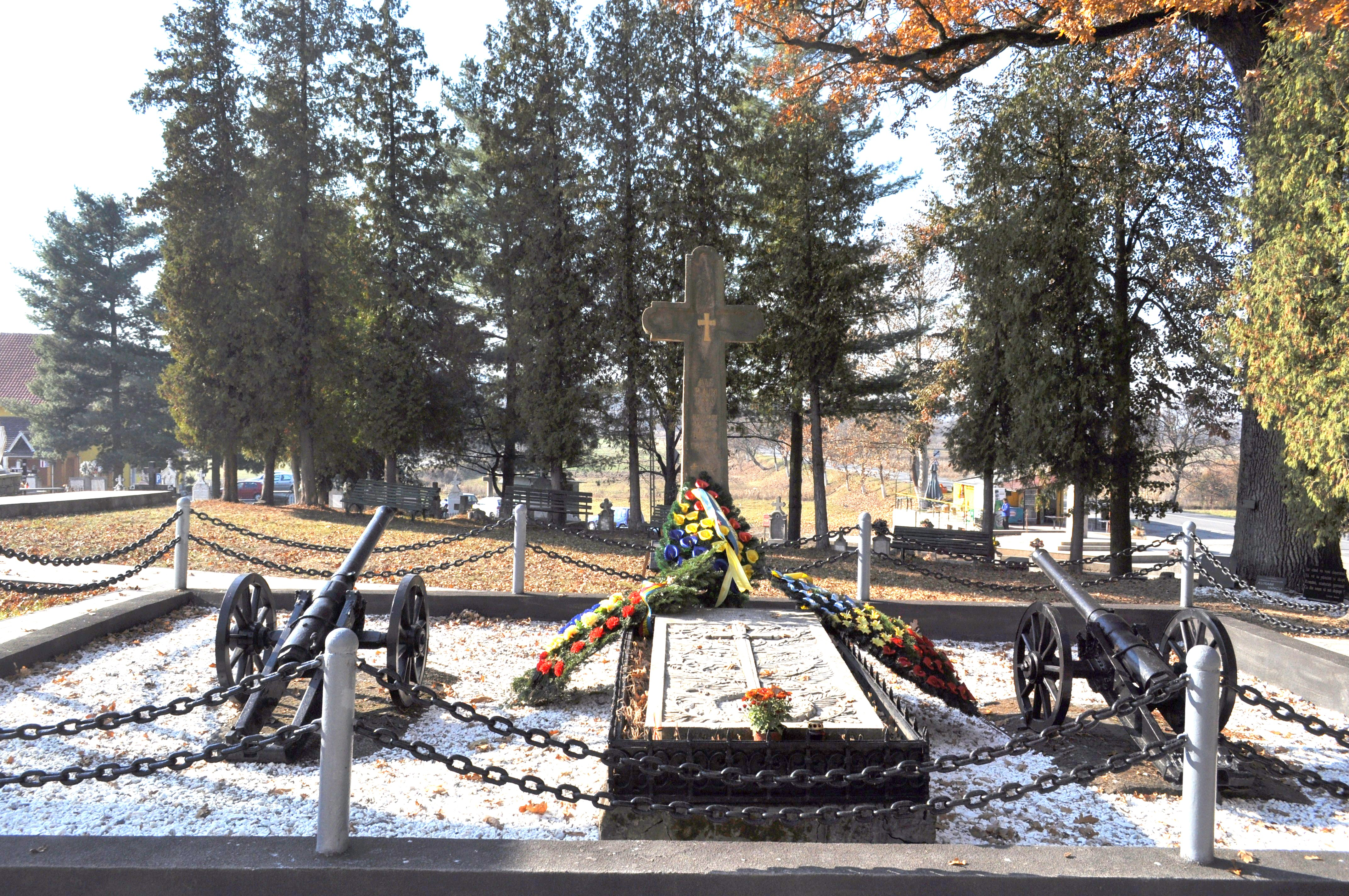 Avram Iancu's tomb